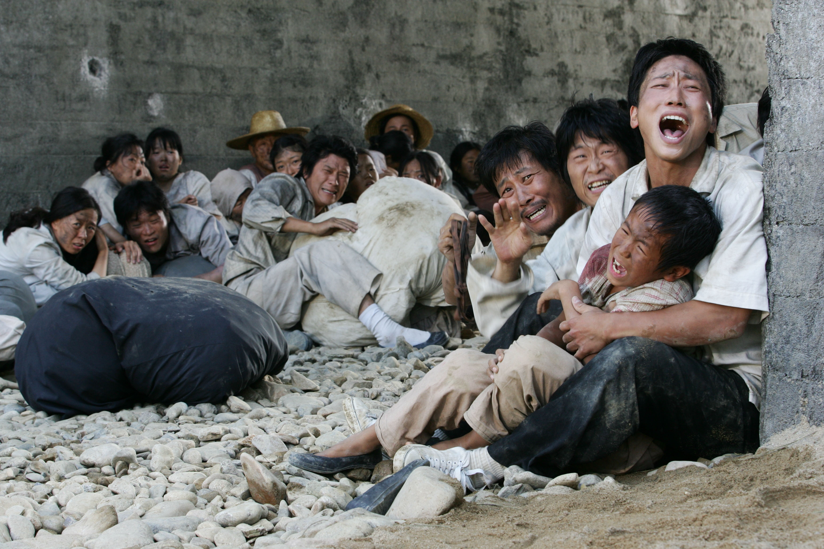 A depiction of the scene under the No Gun Ri bridge from the 2009 South Korean feature film ``A Little Pond.’’ The U.S. military killed a large number of South Korean refugees under and around the bridge in July 1950.